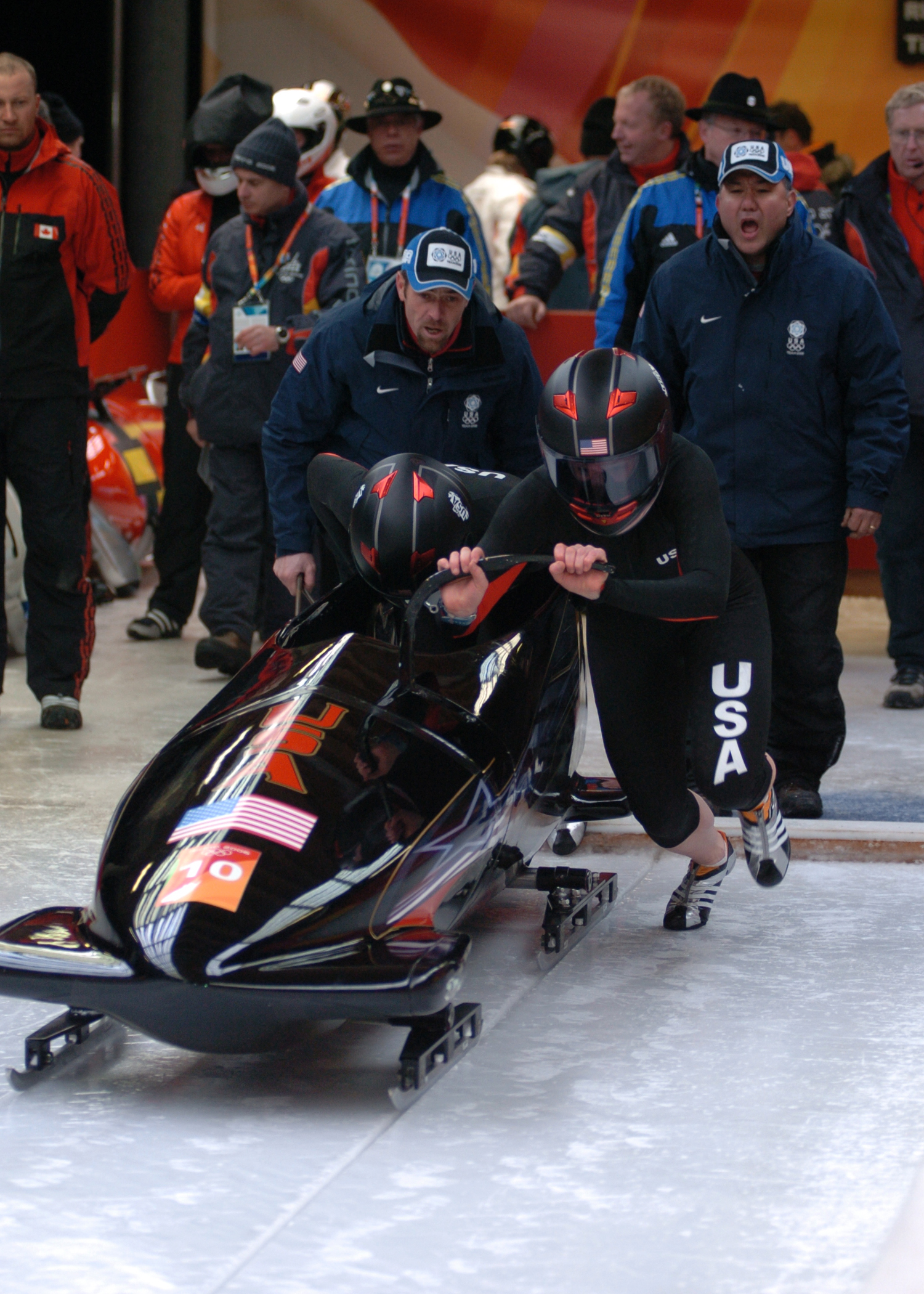 Spc. Shauna Rohbock, a member of the National Guard Outstanding Athlete Program, along with brakeman Valerie Fleming, pushes USA-1 off the starting line at the bobsled track at Cesana Pariol in the Italian Alps. Tuesday, Rohbock and Fleming finished the Women’s Bobsled competition in the XX Winter Olympics in second place to take home Silver for the United States.